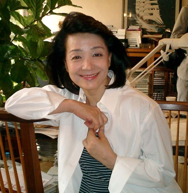 Yoshiko Sakurai, Japanese journalist